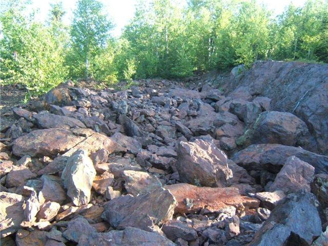 Rock waste at Big Dan Mine in Temagami, Ontario, Canada.